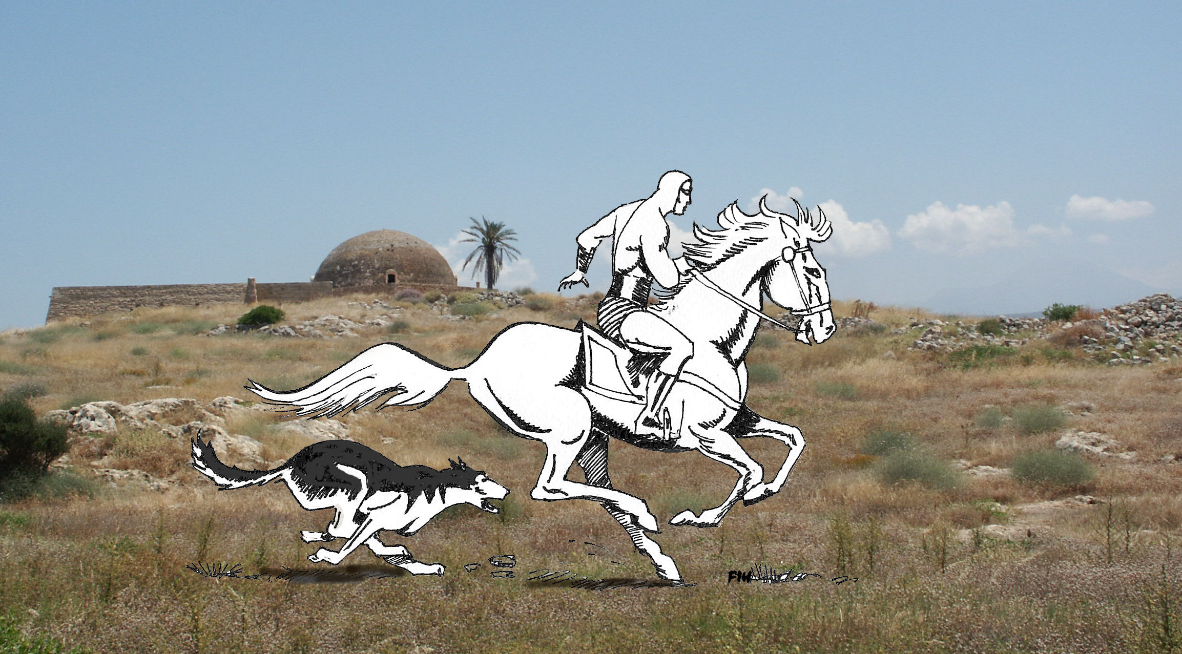 Illustration of The Phantom from the comic strip. Design: Frode Inge Helland. 2006.12.10